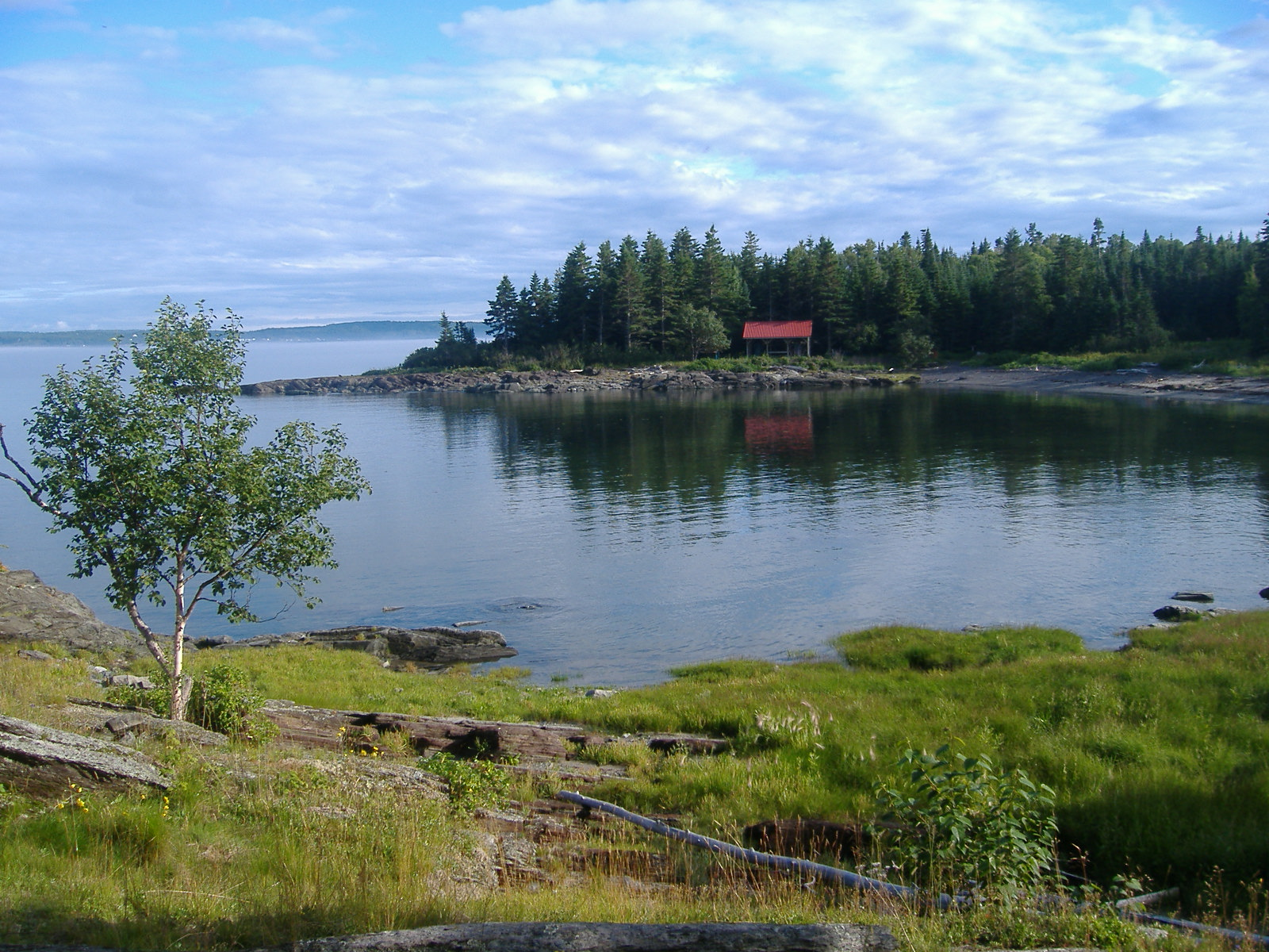 Picture taken from the northeast side of the Anse d'en Bas, Île-aux-Basques.